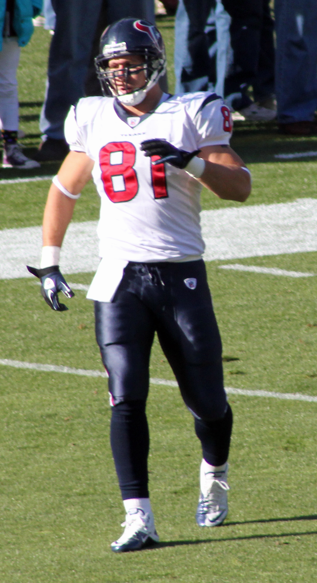 Owen Daniels, a player on the Houston Texans American football team.